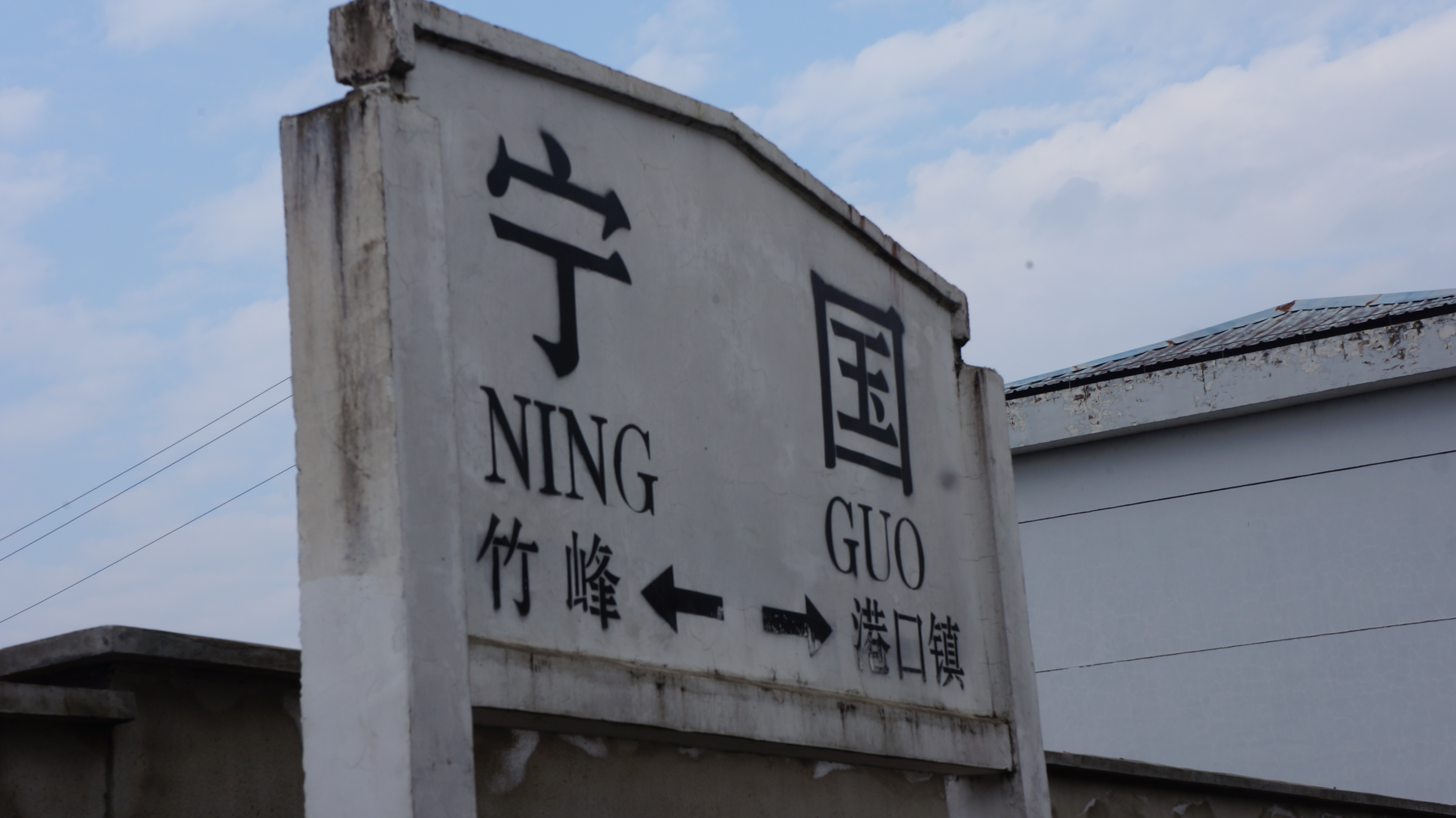 201601 Ningguo Railway Station